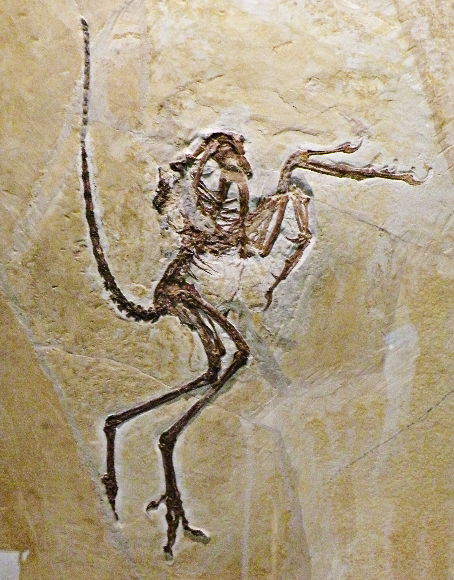 Archaeopteryx_lithographica_MEYER,_1861.jpg